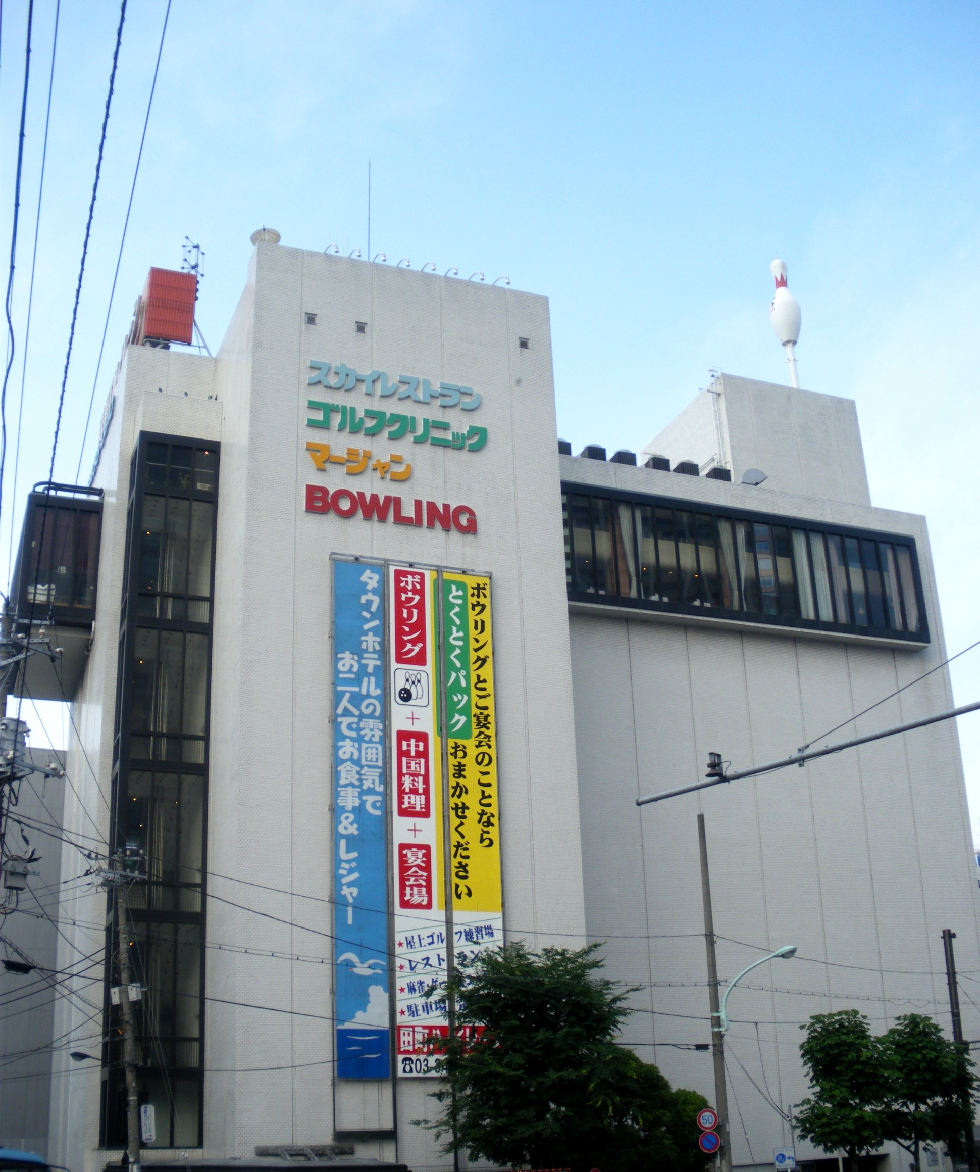 Tamachi High Lane(Shibaura,minato,Tokyo)